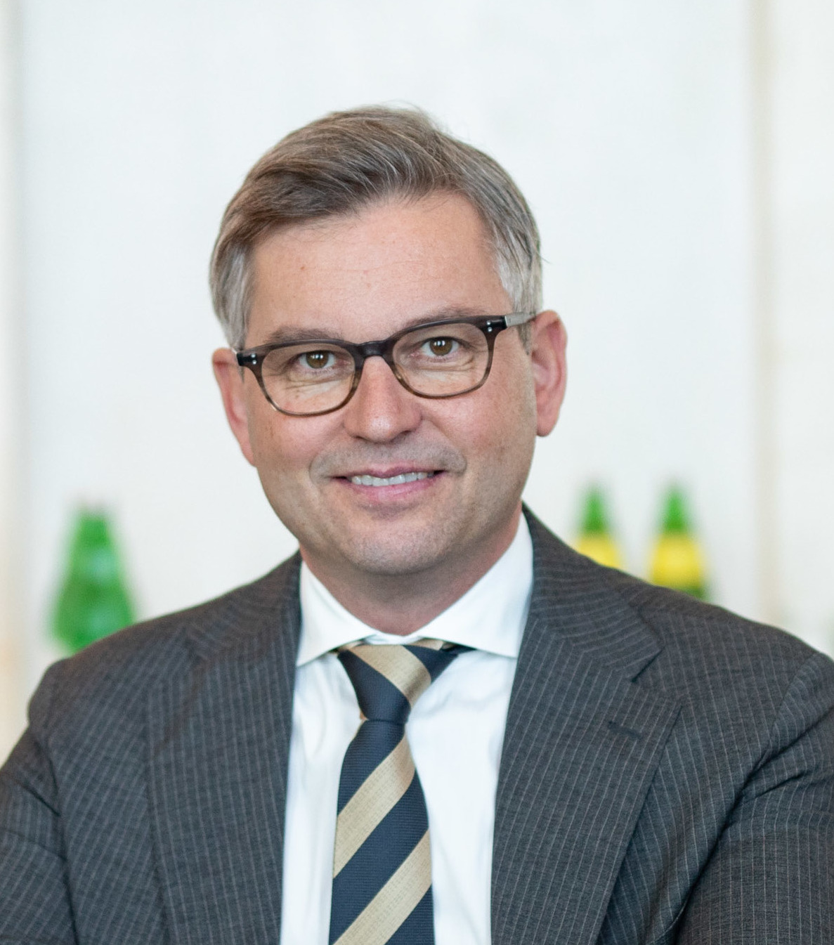 Fotocredit: BKA